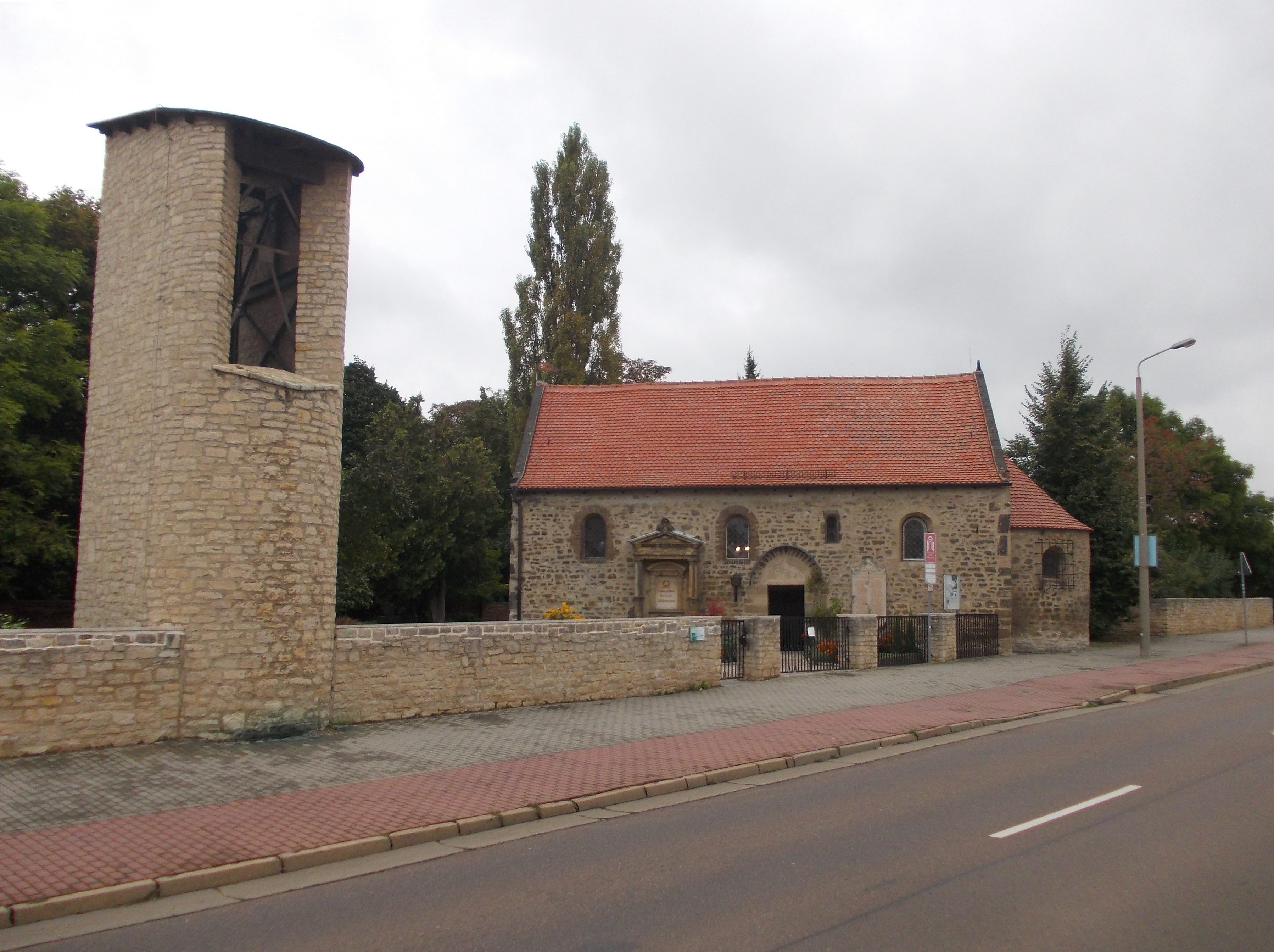 St. Nicholas' Church in Böllberg (Halle/Saale, Saxony-Anhalt)